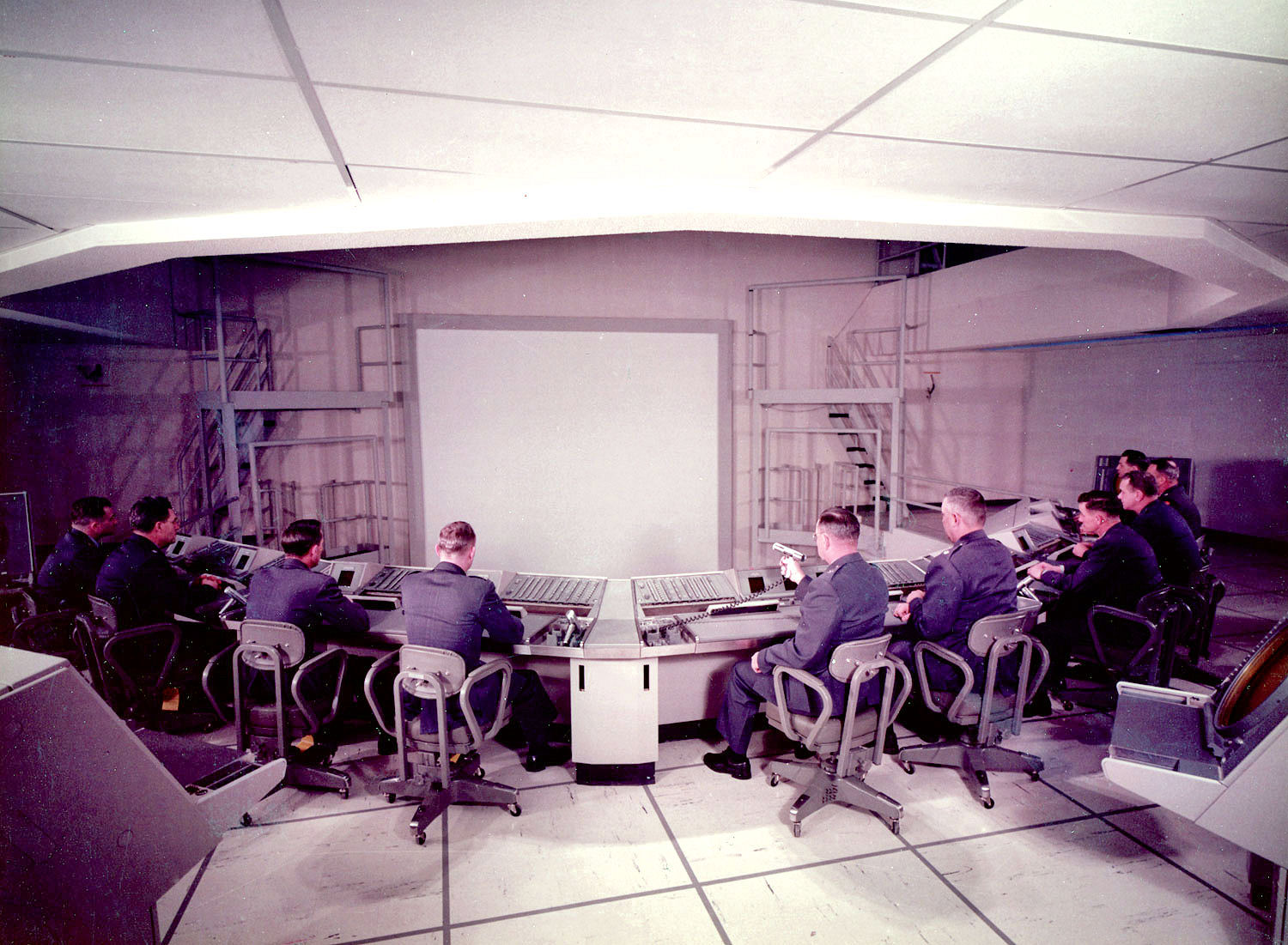 Interior of SAGE Combat Center CC-01 at Hancock Field, NY